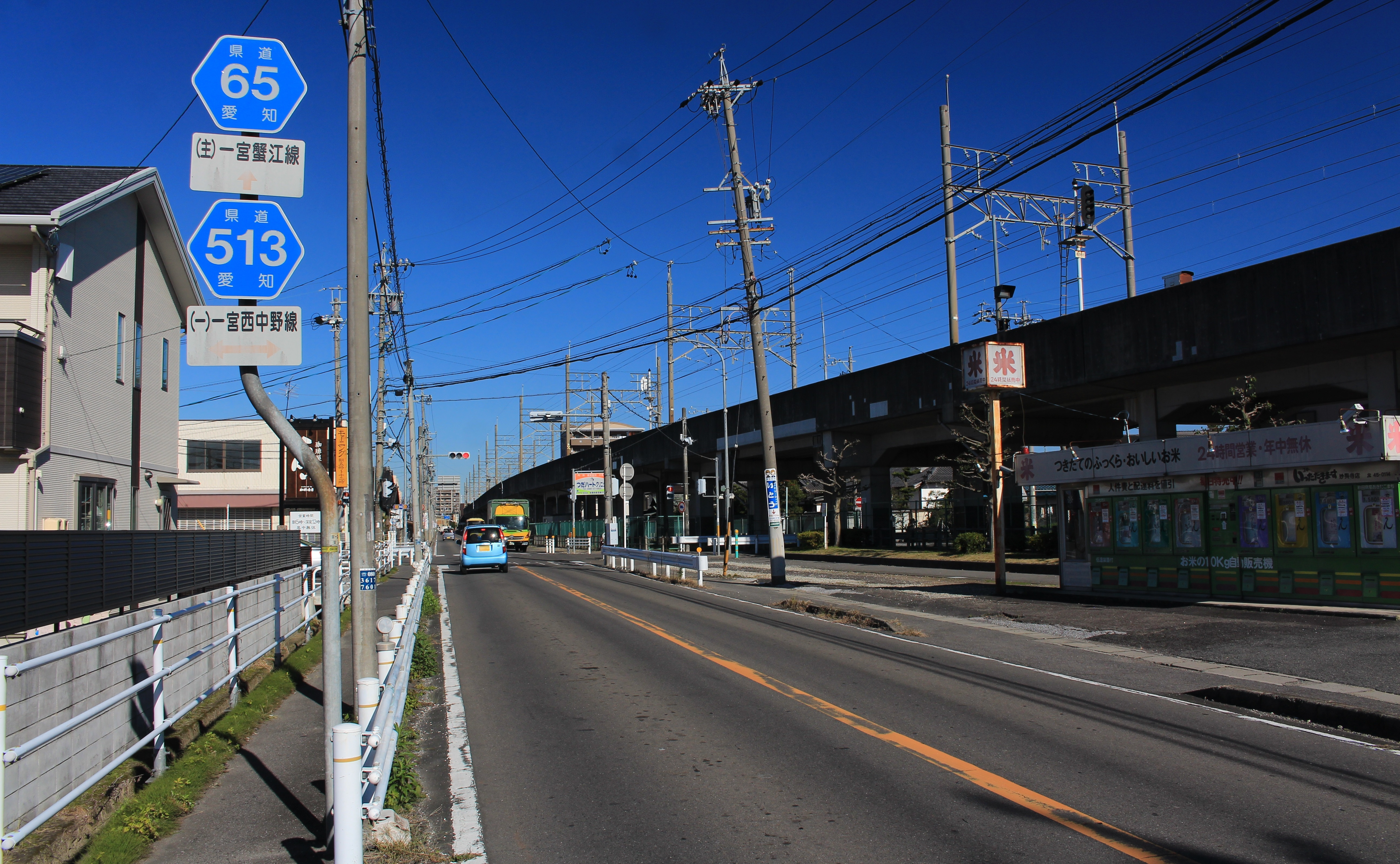 Aichi Prefectural Road Route 65 in Myokoji, Yamato, Ichinomiya, Aichi prefecture, Japan.